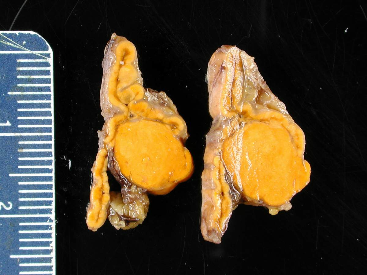 Adrenal Adenoma in Clinical Conn's Syndrome Adrenal adenoma, aldosterone producing associated with Conn's syndrome. Gross photograph showing 2 contiguous slices of adrenal gland with cortical adenoma. Patient had hyperaldosteronism (Conn's syndrome).